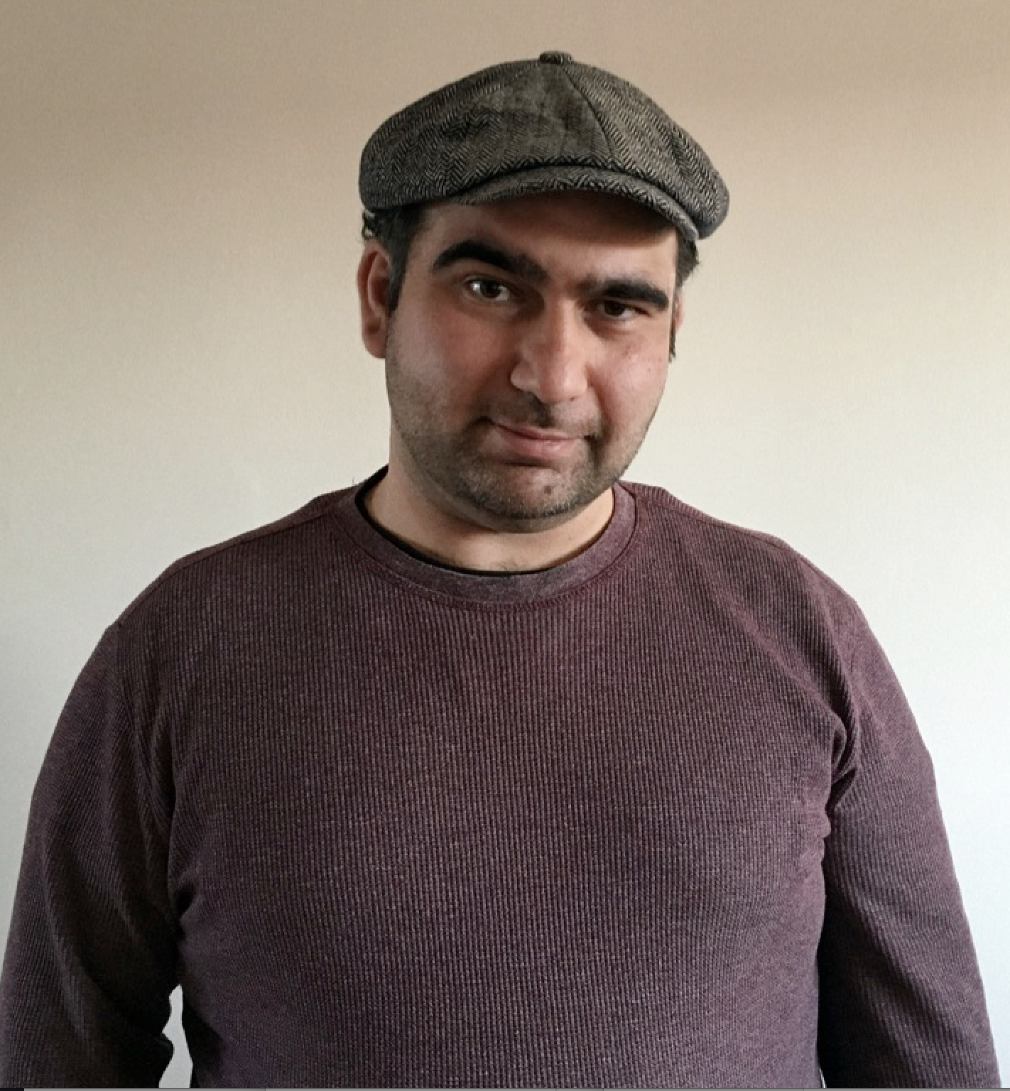 Photo of Abbe Hassan